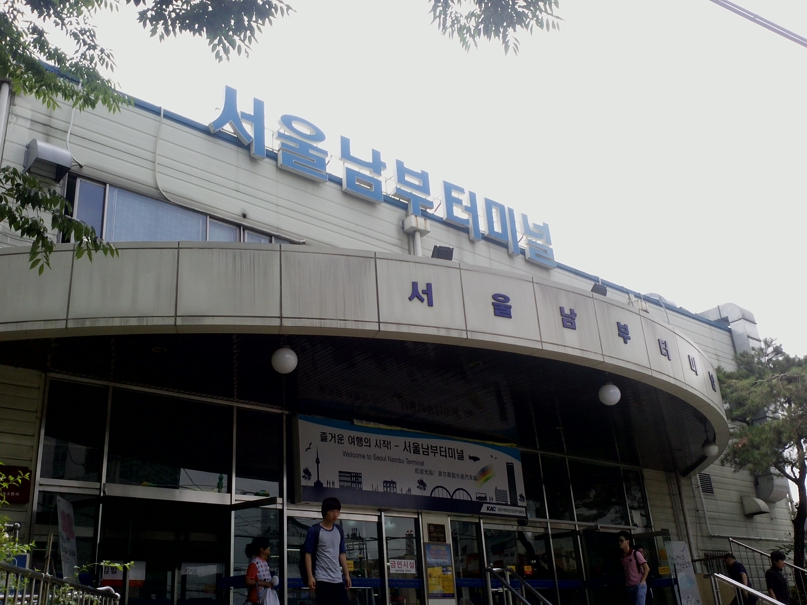 Seoul Nambu Bus Terminal, Entrance